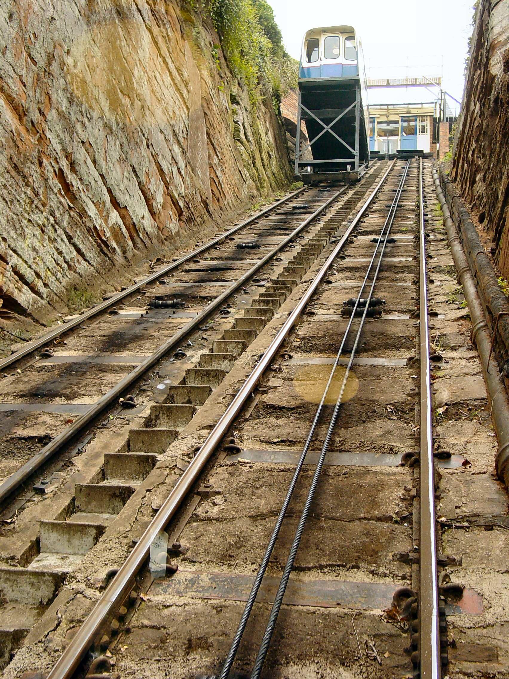 The Bridgenorth Fenicular Railway.